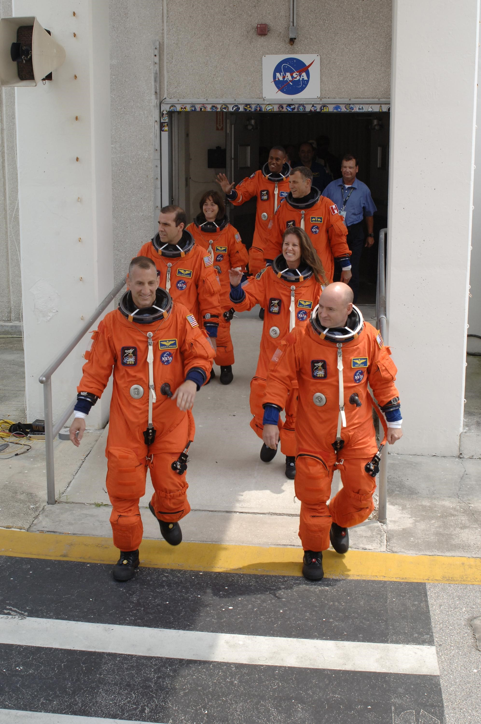 The STS-118 Crew leaves the Crew Compartment